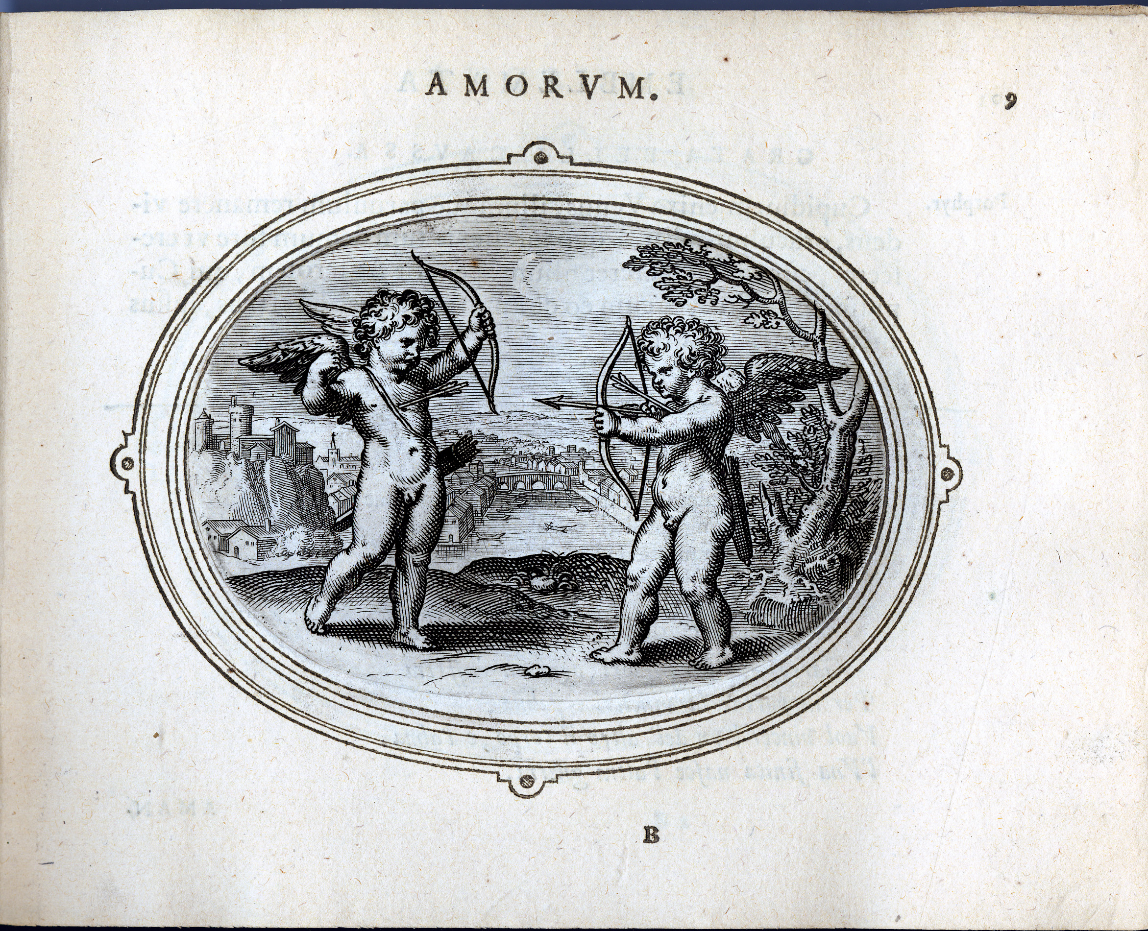 Veen, Otto van. Amorum Emblemata... Emblemes of Love, with verses in Latin, English, and Italian. Antwerp: [Typis Henrici Swingenii] Venalia apud Auctorem, 1608.